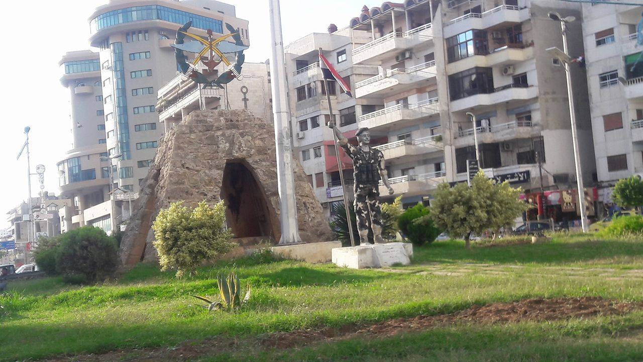 Al-Ziraa roundabout in Latakia, Syria, and in the background the Alma hotel.